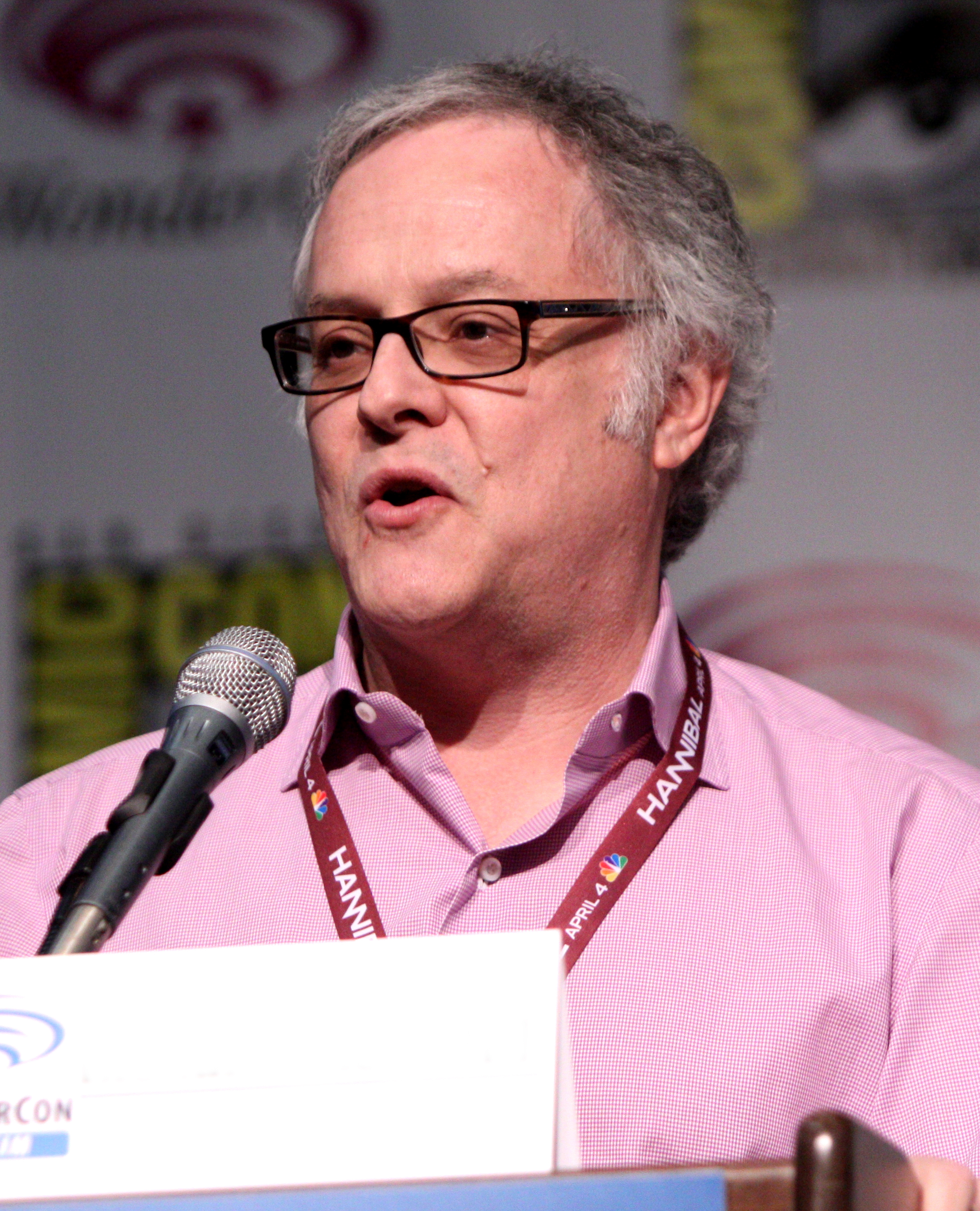 Neal Baer speaking at the 2013 WonderCon in Anaheim, California on March 30, 2013.